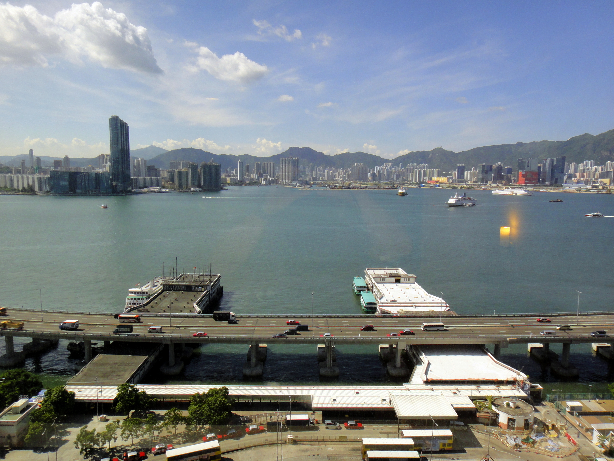 View across North Point Ferry Pier and Kowloon Bay towards Kowloon